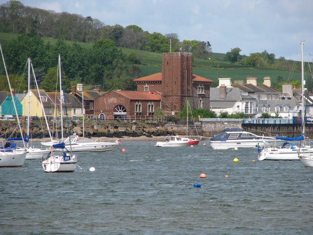 Starcross and the Brunel Pumping Station from the Exe